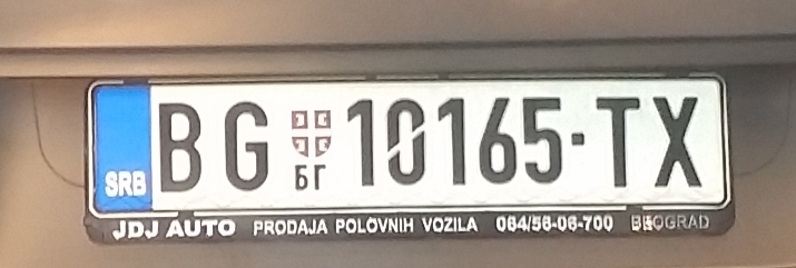 Belgrade taxi plates